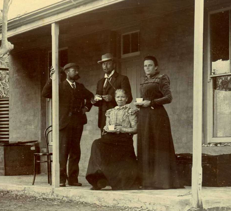 Josef Hammar (middle) meets his brother August Hammar (left) with his family in Pietermaritzburg, Natal, South Africa, June 1900.